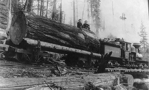 Washington logging train going down a mountain, on which are logs from a fir tree 12 feet in diameter